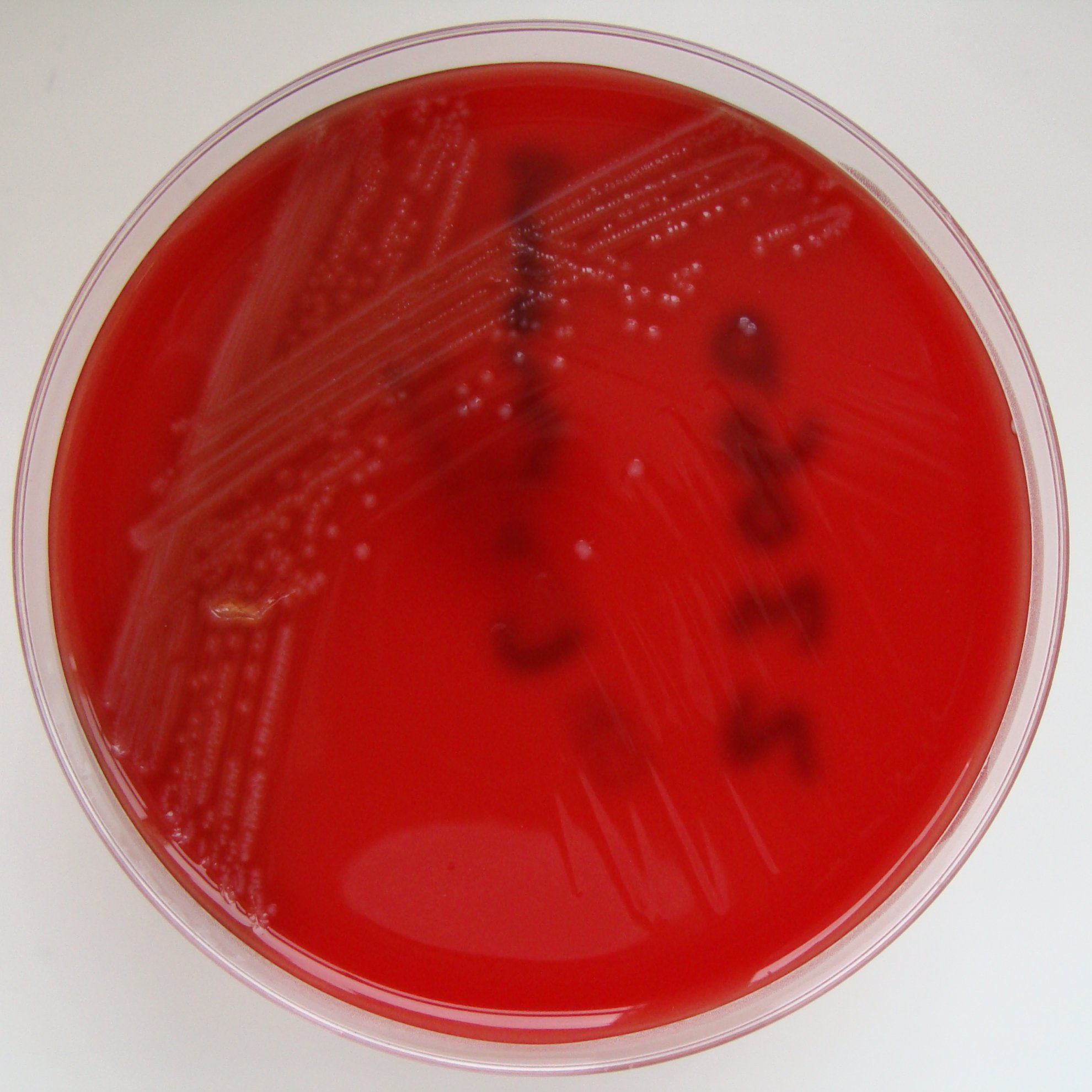 Listeria monocytogenes - Columbia Horse Blood Agar